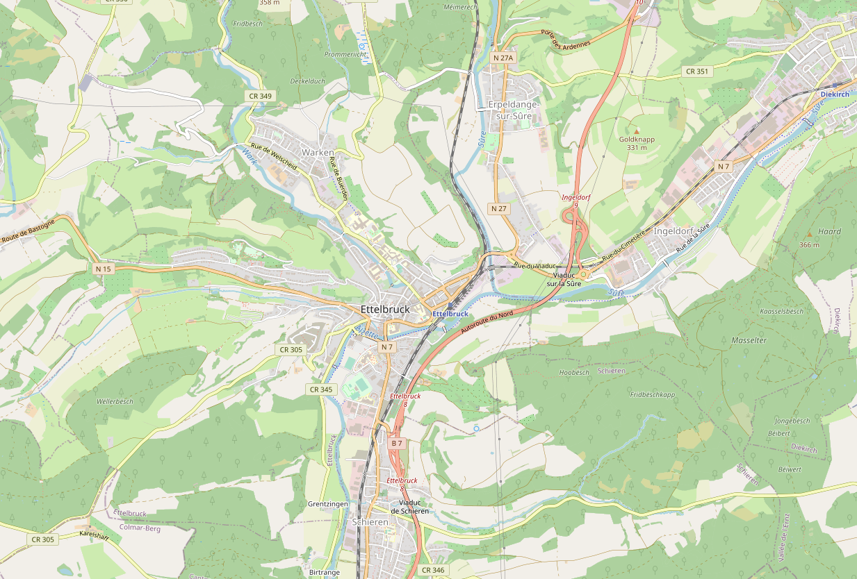 Map of Ettelbruck